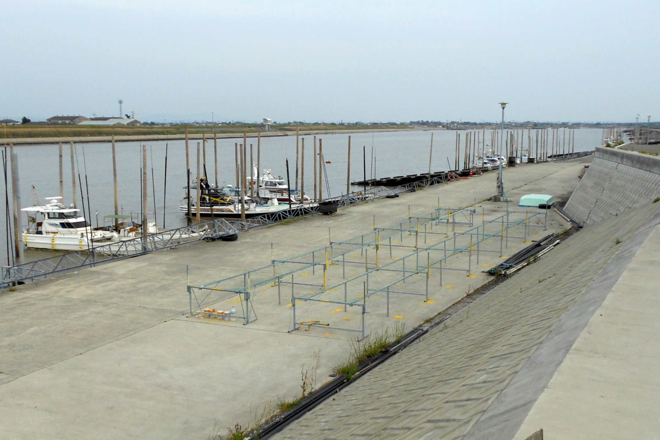 Hayatsue fishery port facing the Hayatsue River in Saga, Japan.